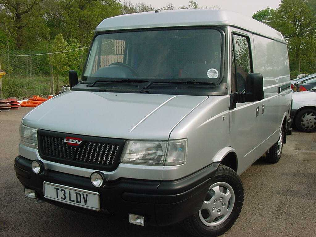 1999 LDV Pilot. 2.2T panel van fitted with Peugeot XUD 1.9 Litre normally aspirated indirect Diesel engine